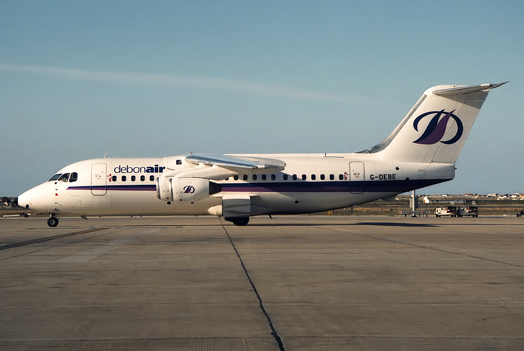 Debonair Airways British Aerospace BAe-146-200 G-DEBE at Faro Airport